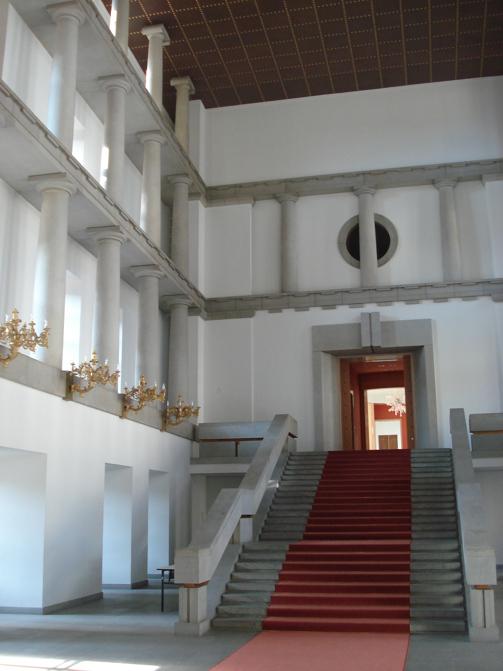 Prague Castle, Staircase leading to the Spanish Hall